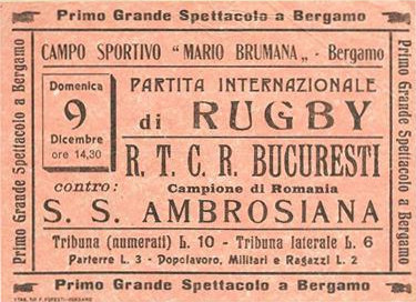 Annonuncement of an exhibition rugby union match in Bergamo between the Romanian club Tennis Club Român of Bucharest and Società Sportiva Ambrosiana, soon to be renamed Amatori Rugby Milan.